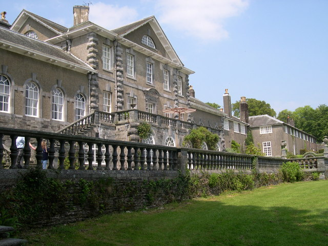 Ffynone House Newchapel, Pembrokeshire. House by John Nash 1792-5, but extensively remodelled in a neo- Baroque style by F Inigo Thomas 1902-7